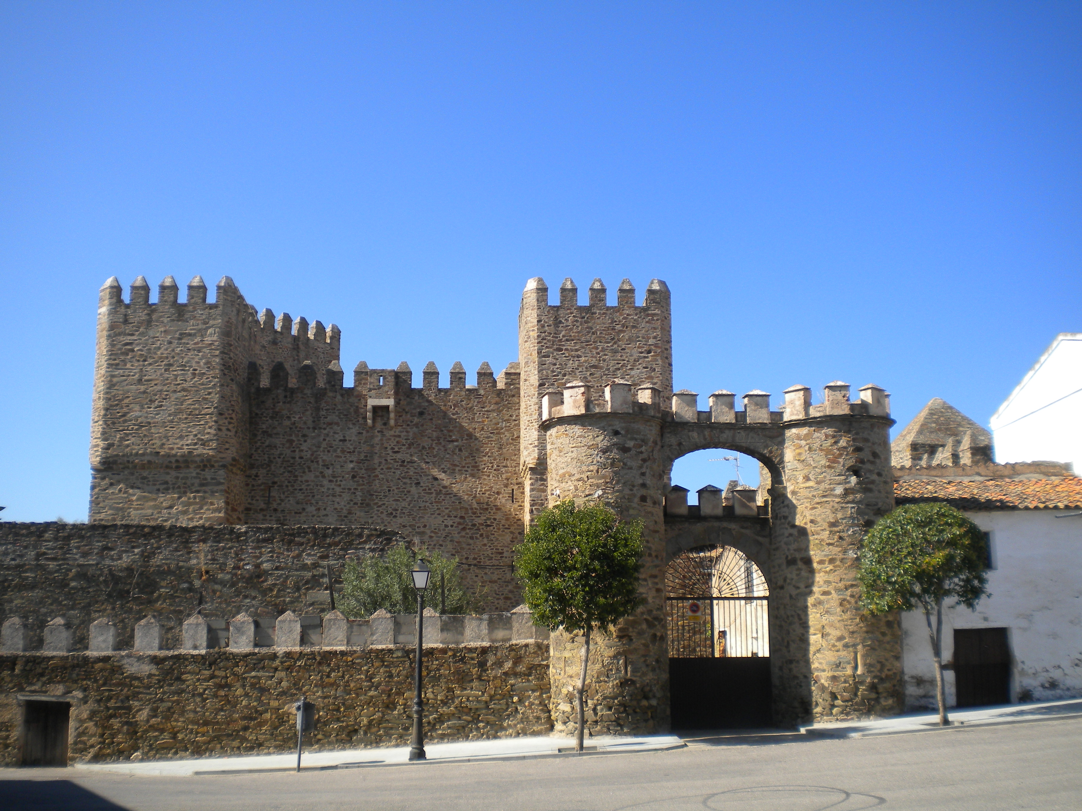 Castle of Monroy (Extremadura, Spain)